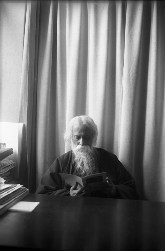 Rabindranath Tagore, Berlin 1930